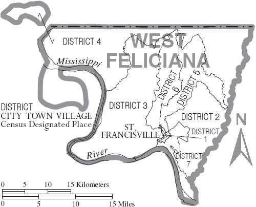 Map of West Feliciana Parish, Louisiana, United States with municipal and district boundaries